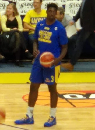 Maccabi Tel Aviv B.C. vs Ironi Nes Ziona B.C. (06) - 25 March 2019